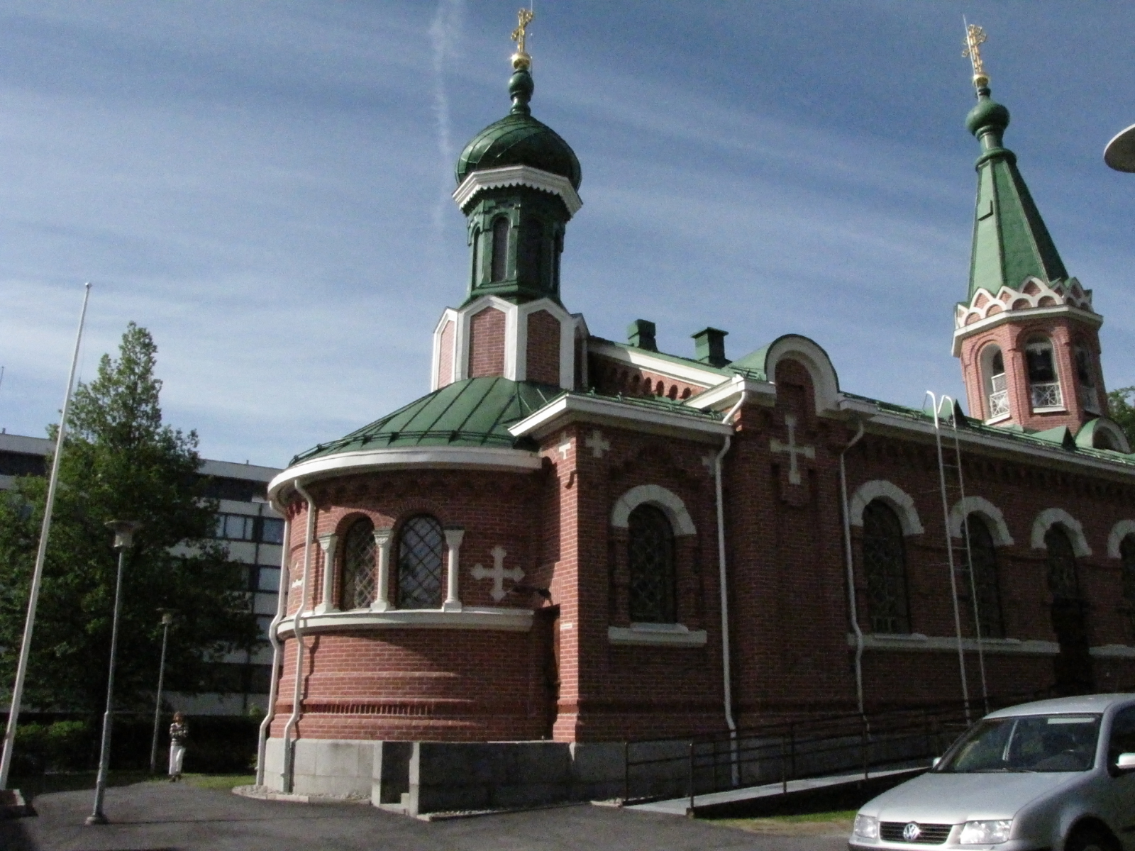 Saint Nicholas Cathedral in Kuopio, Finland. Built in 1902–1903. Architect: Aleksander Isakson.